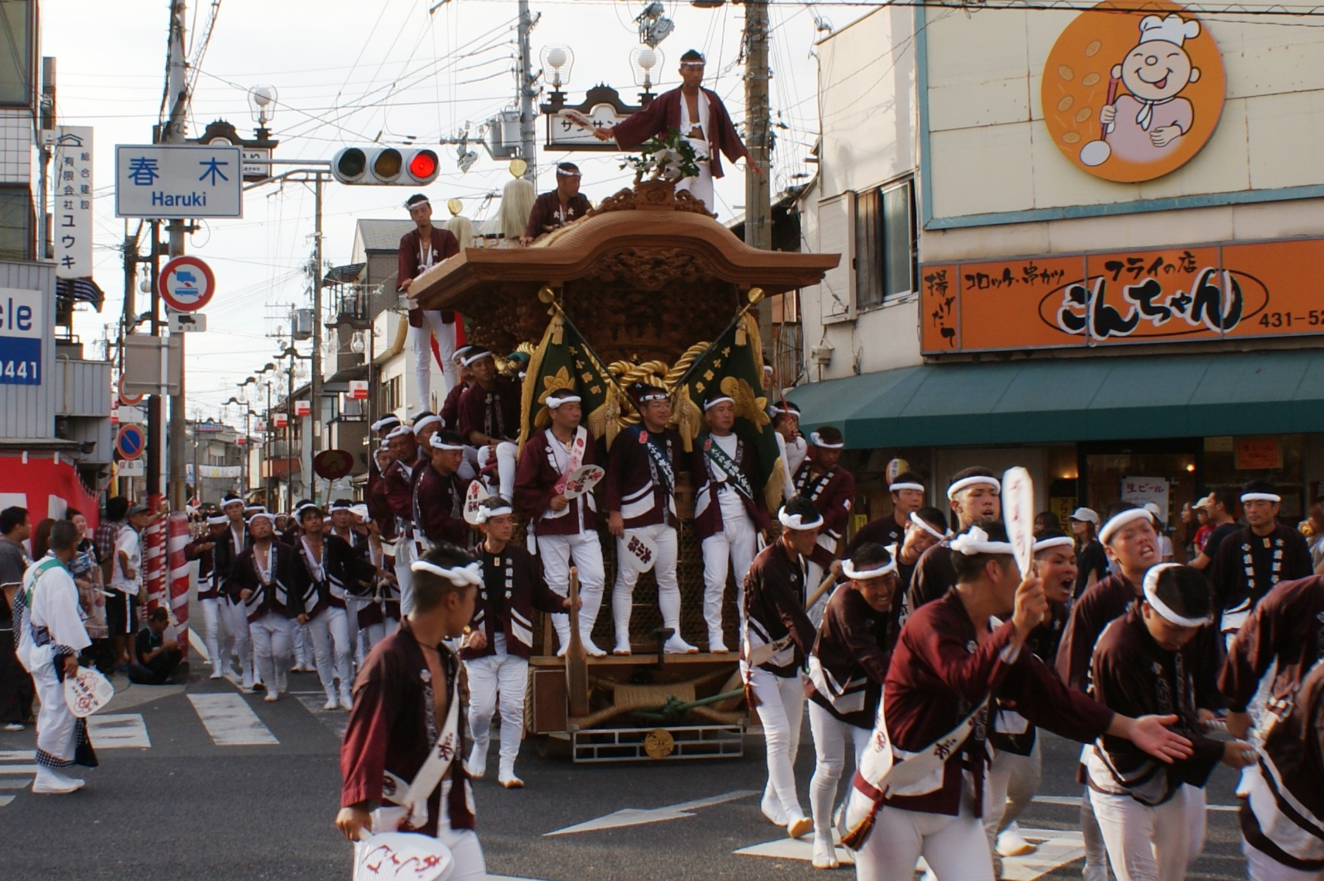 Haruki Danjiri Matsuri festival in Kishiwada, Osaka, Japan on Sep.18, 2011